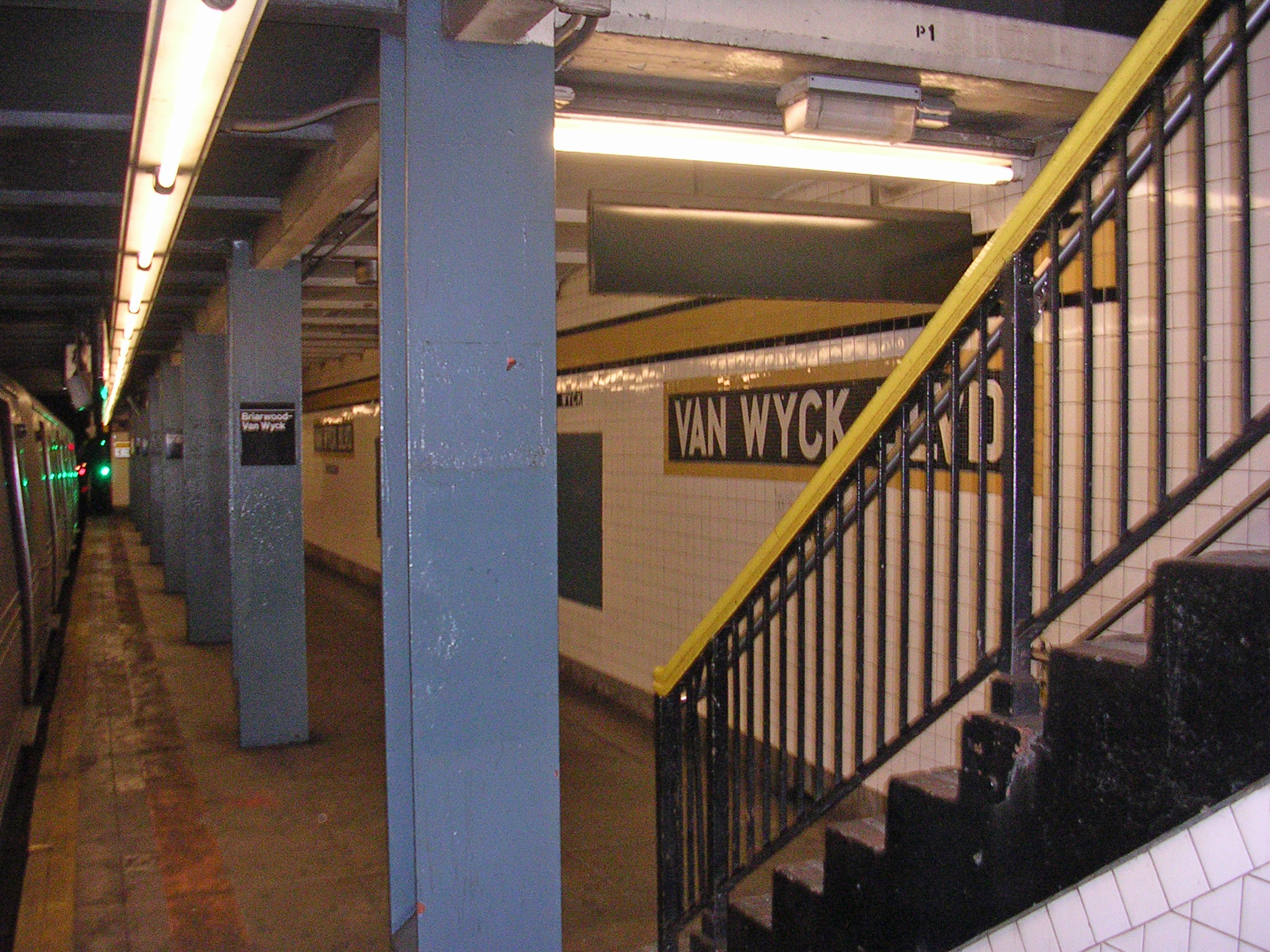 Van Wyck Subway Station by David Shankbone, January 15, 2007.